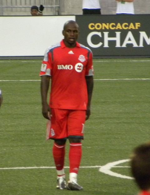 Ali Gerba